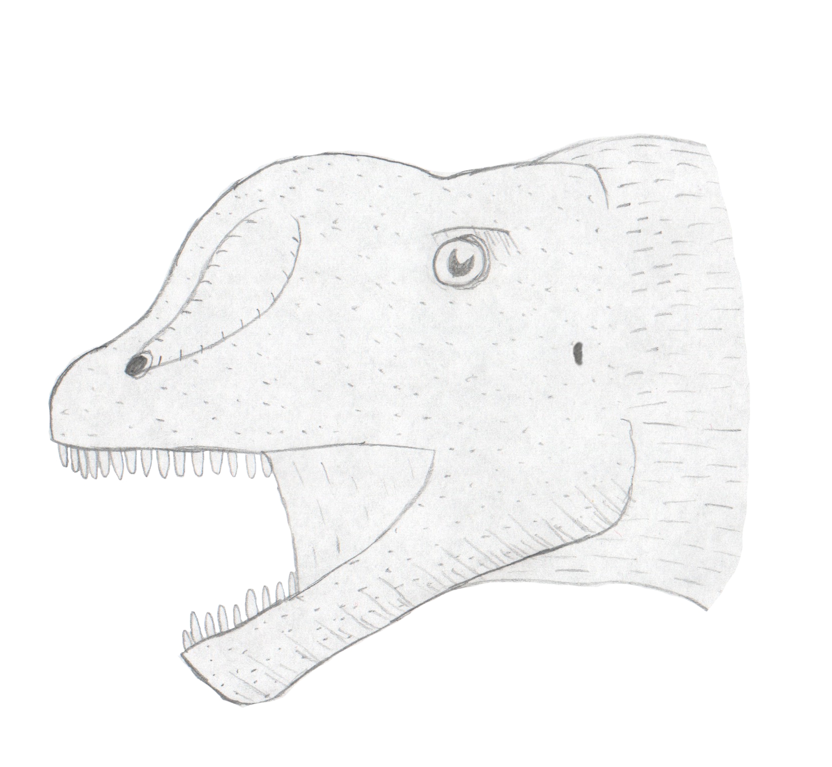 Illustration of the head of Chebsaurus.